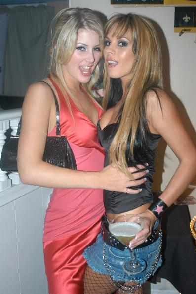 Lacie Heart, Kirsten Price at LA Direct Model's Party, Dec 19, 2005